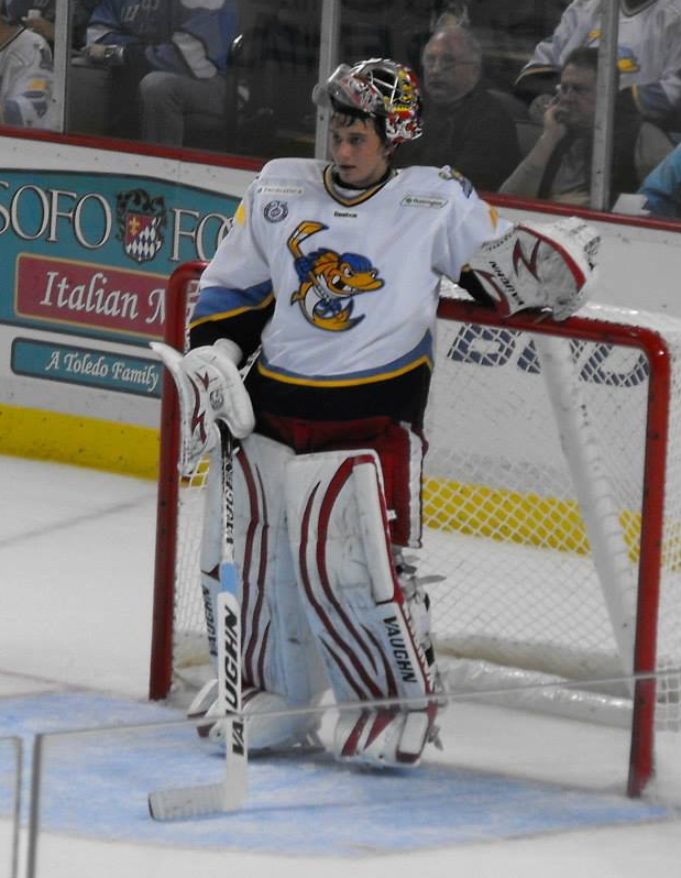 Taken 10/13/2012 @ Huntington Center, Toldeo, OH